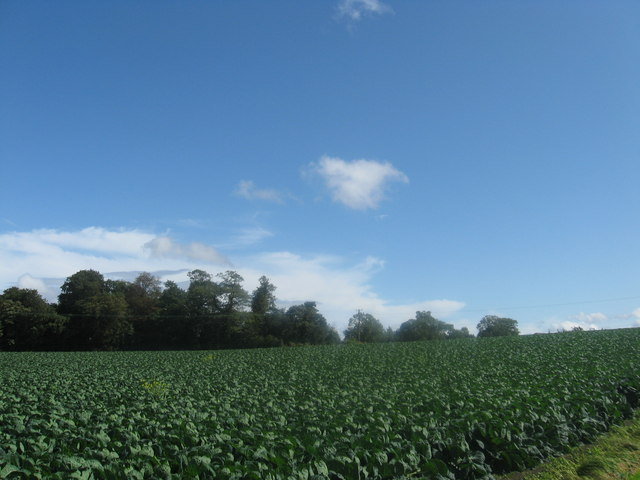 Cabbage field at Chesterhall near Longniddry in East Lothian.